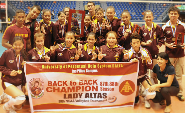 Lady ALTAS Volleyball Team of the University of Pereptual Help - back-to-back Champion in the National Collegiate Athletic Association (NCAA) Beach Volleyball Tournament